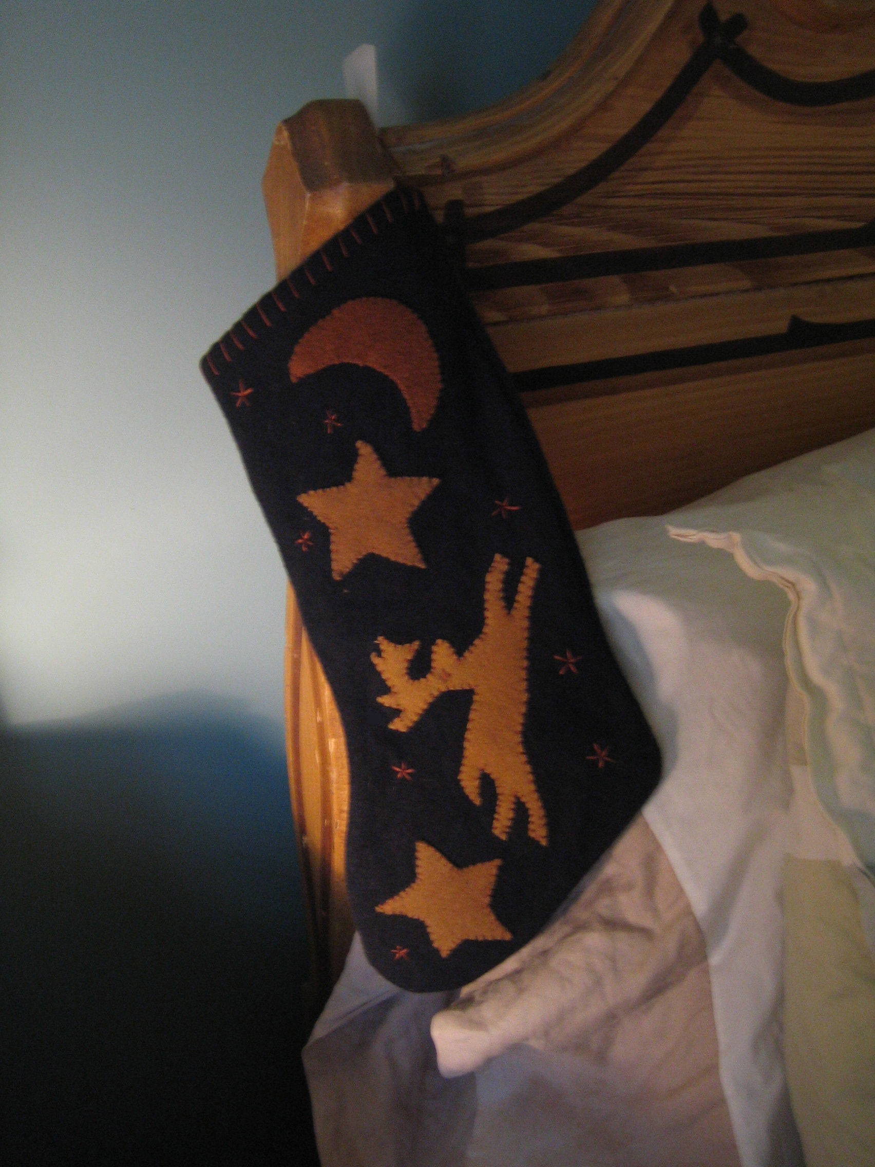 Christmas stocking hanging on a bed in Vermont. December 2005. By Jim Hood. Attribution with reproduction is requested.